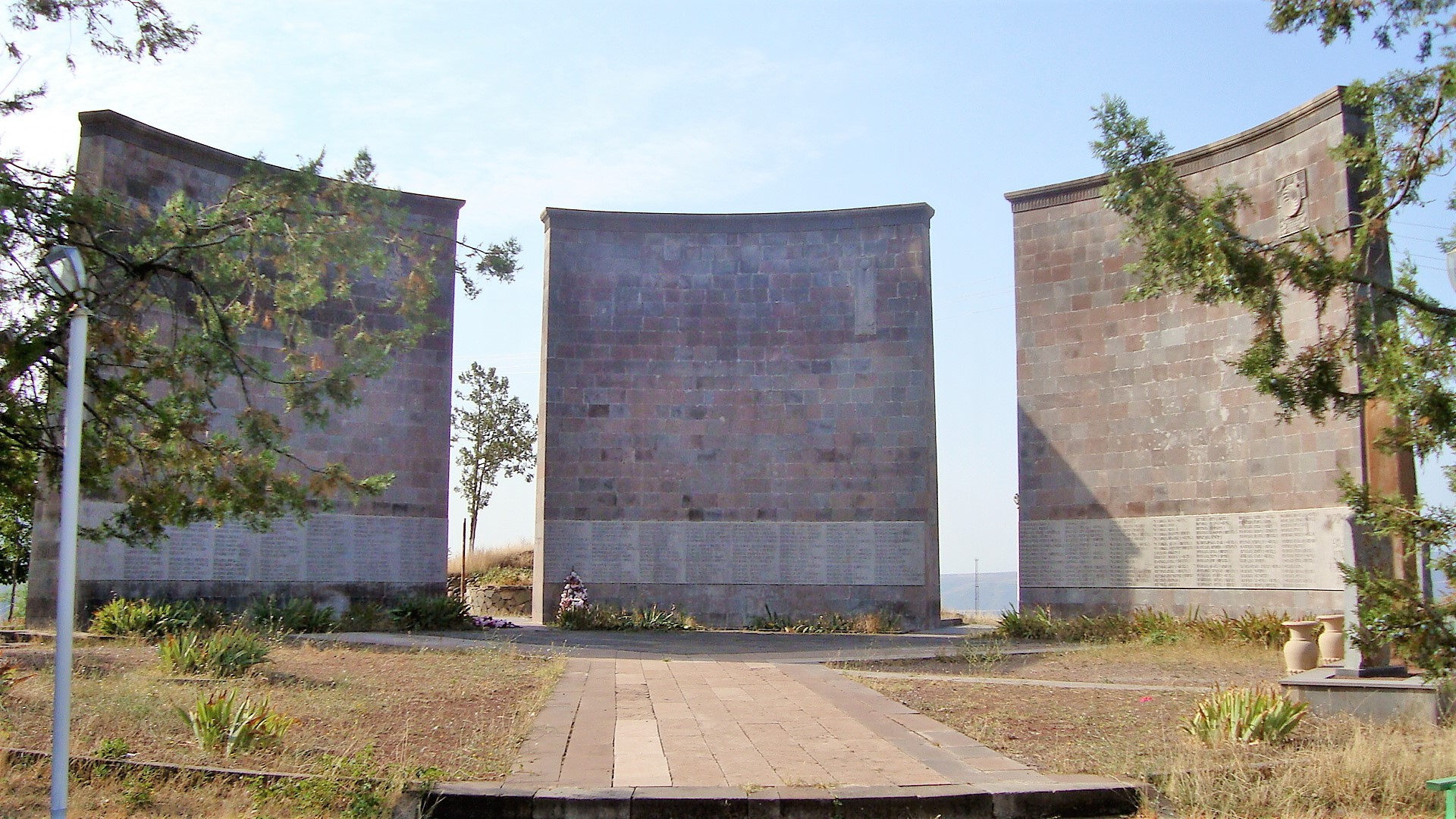 A big monument complex in honor of liberators of Artsakh war. Berdzor, Republic of Mountainous Karabakh (Artsakh).(Note:This is a monument complex in honor of the soviet warriors died in battles of World War II builded in Lachin before 1970 (Encyclopaedia of Soviet Azerbaijan, article Lachin). In 1993 Armenians had removed Soviet emblems and written the names of Armenian militants. Now they call it "A monument complex in honor of liberators of Artsakh war")